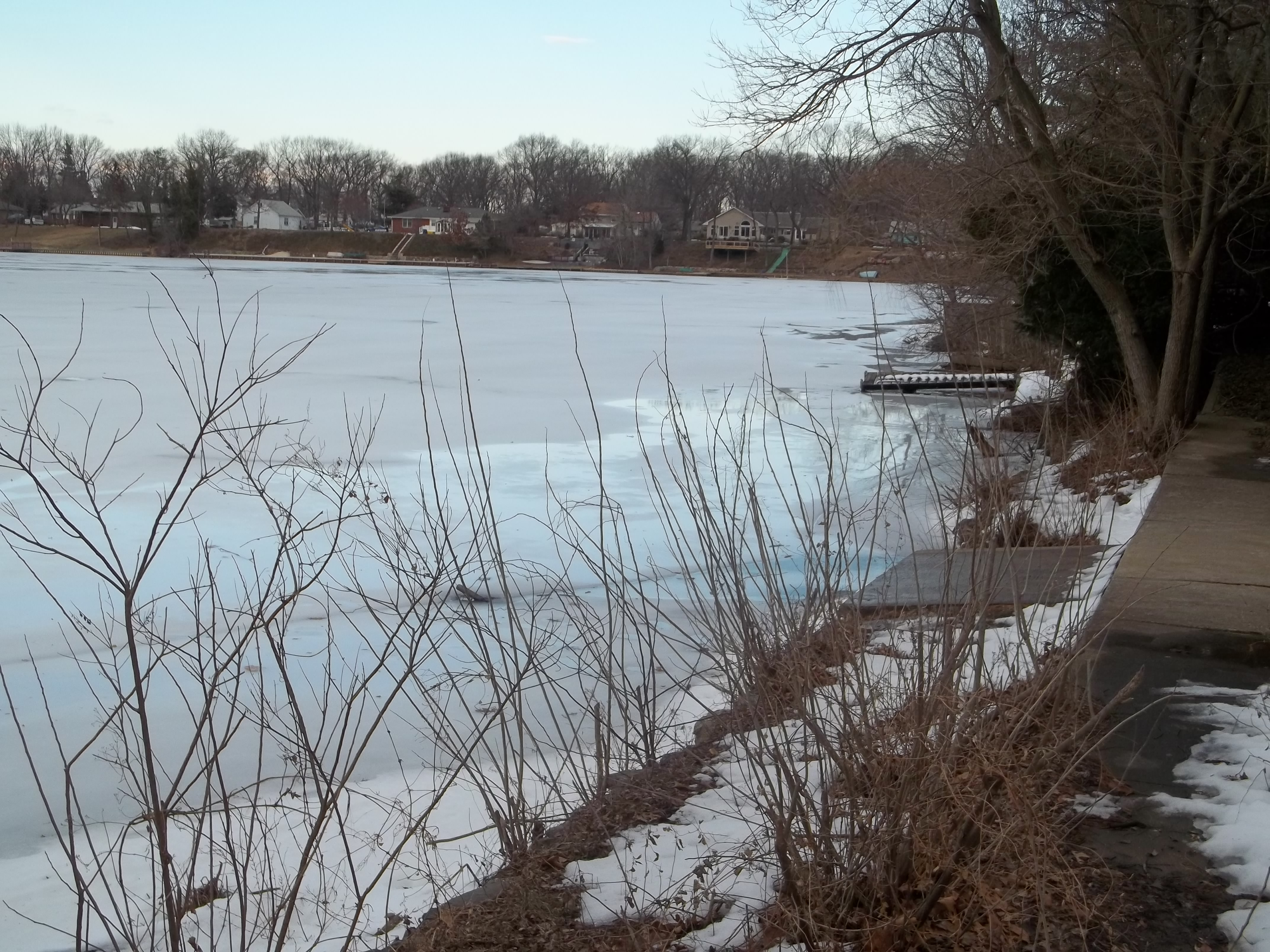 Swedes Lake, Delran NJ USA February 14th, 2011